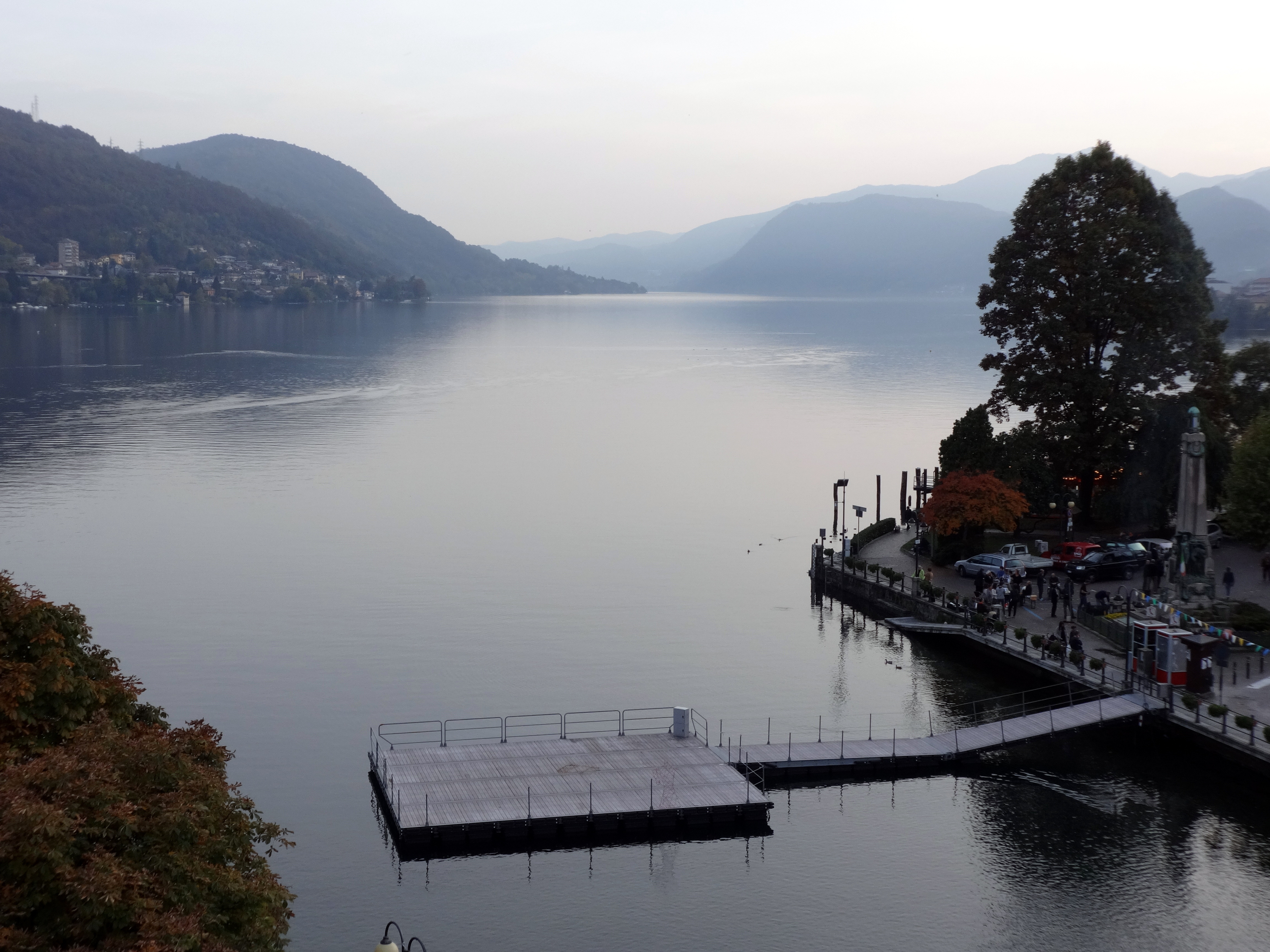 Lake Orta as seen from Omegna, Italy in autumn